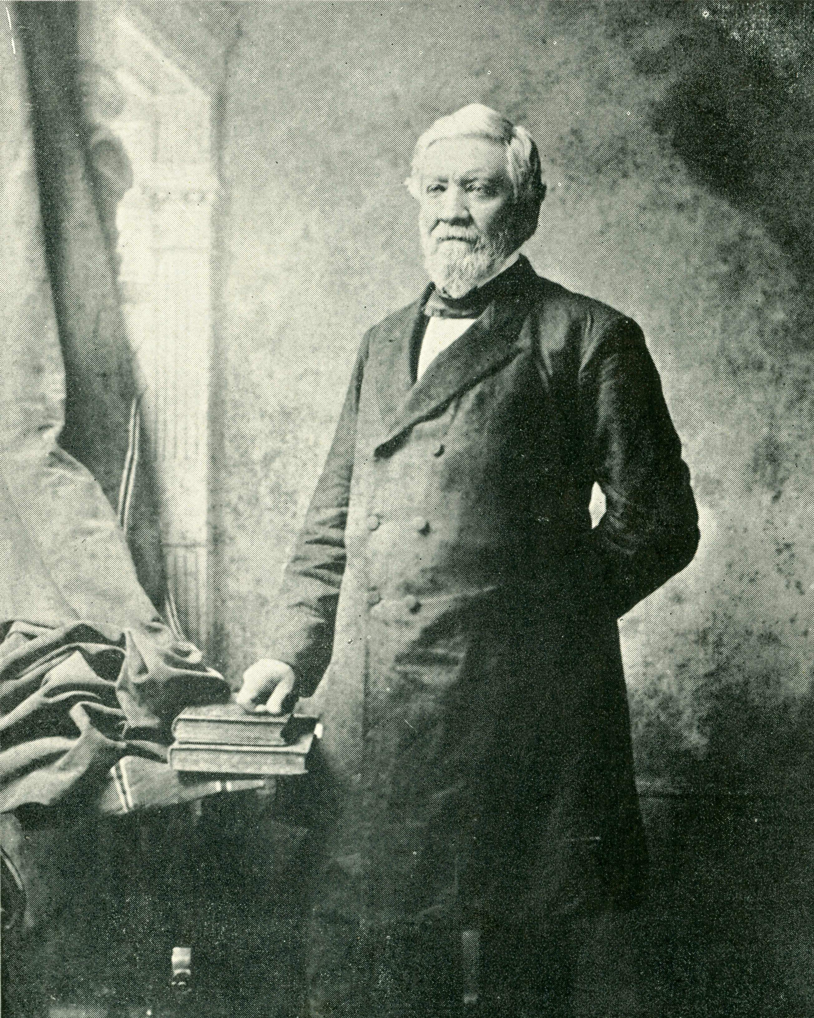 General Williams Carter Wickham (1820-1888)